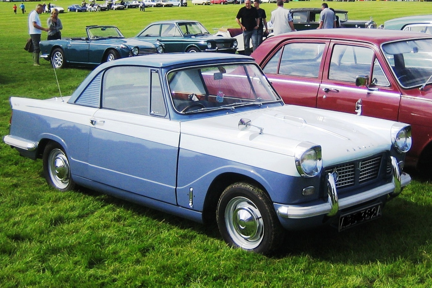 Triumph Herald Coupe looking well preserved at a classic car show in Hertfordshire